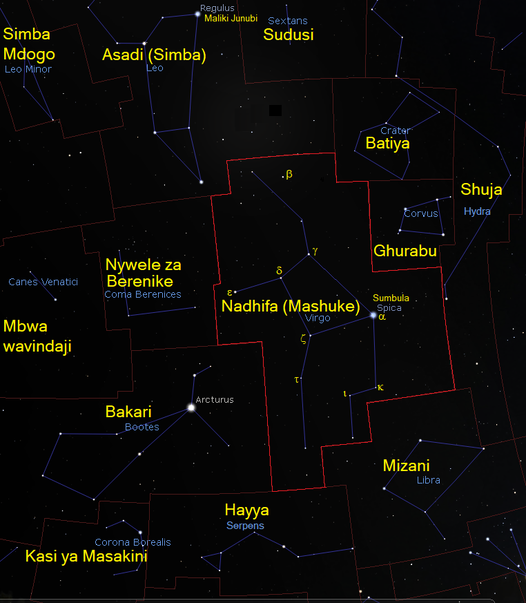 Constellation Virgo as seen from Tanzania, Swahili labelled Kiswahili: Kundinyota Nadhifa (Virgo) jinsi inavyoonekana kutoka Tanzania, majina kwa Kiswahili